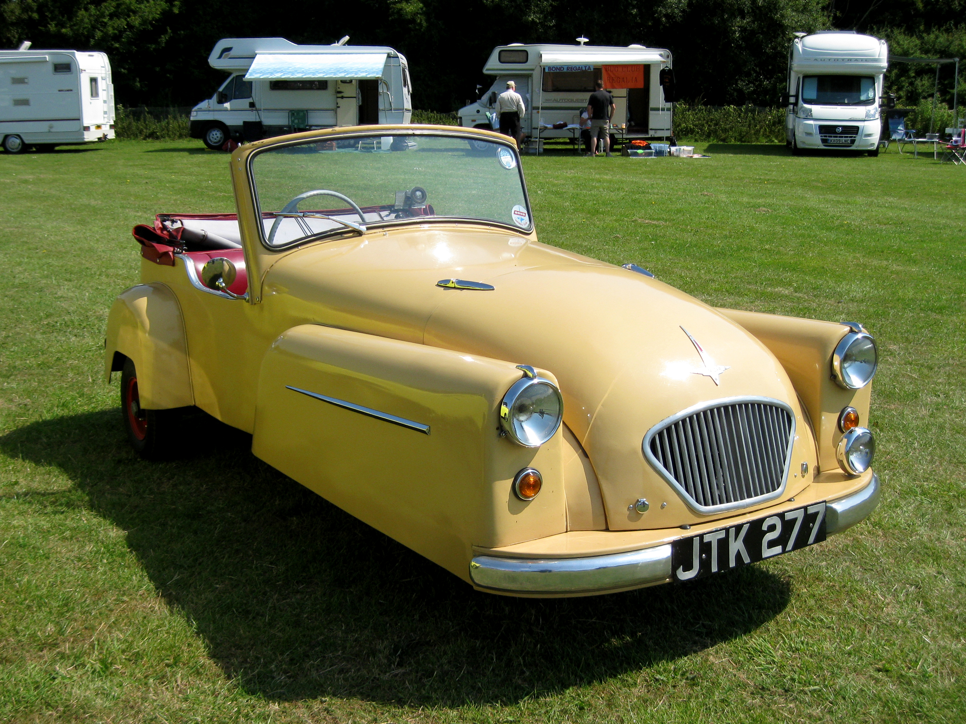 A 1956 Bond Minicar Mark C De Luxe Tourer, at the Bath Microcar Rally, Keynsham Rugby Football Ground, Keynsham